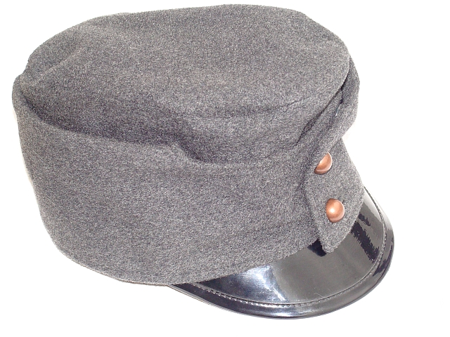 The pike-grey field service Kappe (cap)